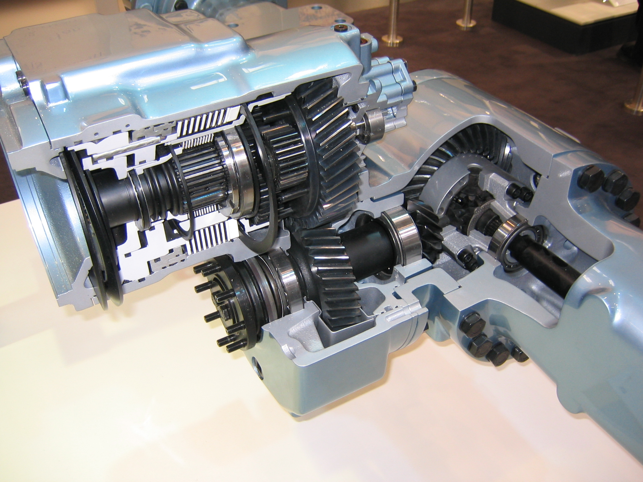 ZF axle for excavators, bauma 2004